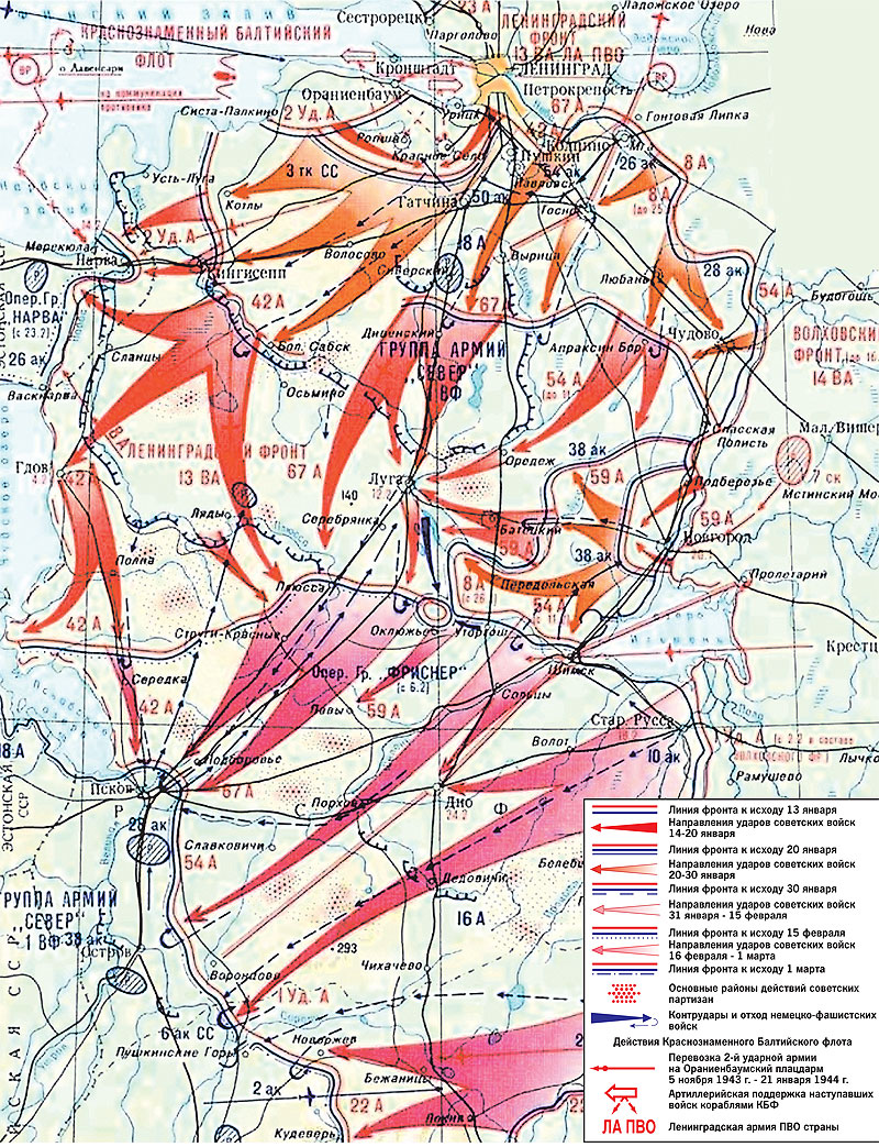 Soviet map of Leningrad-Novgorod Strategic Offensive